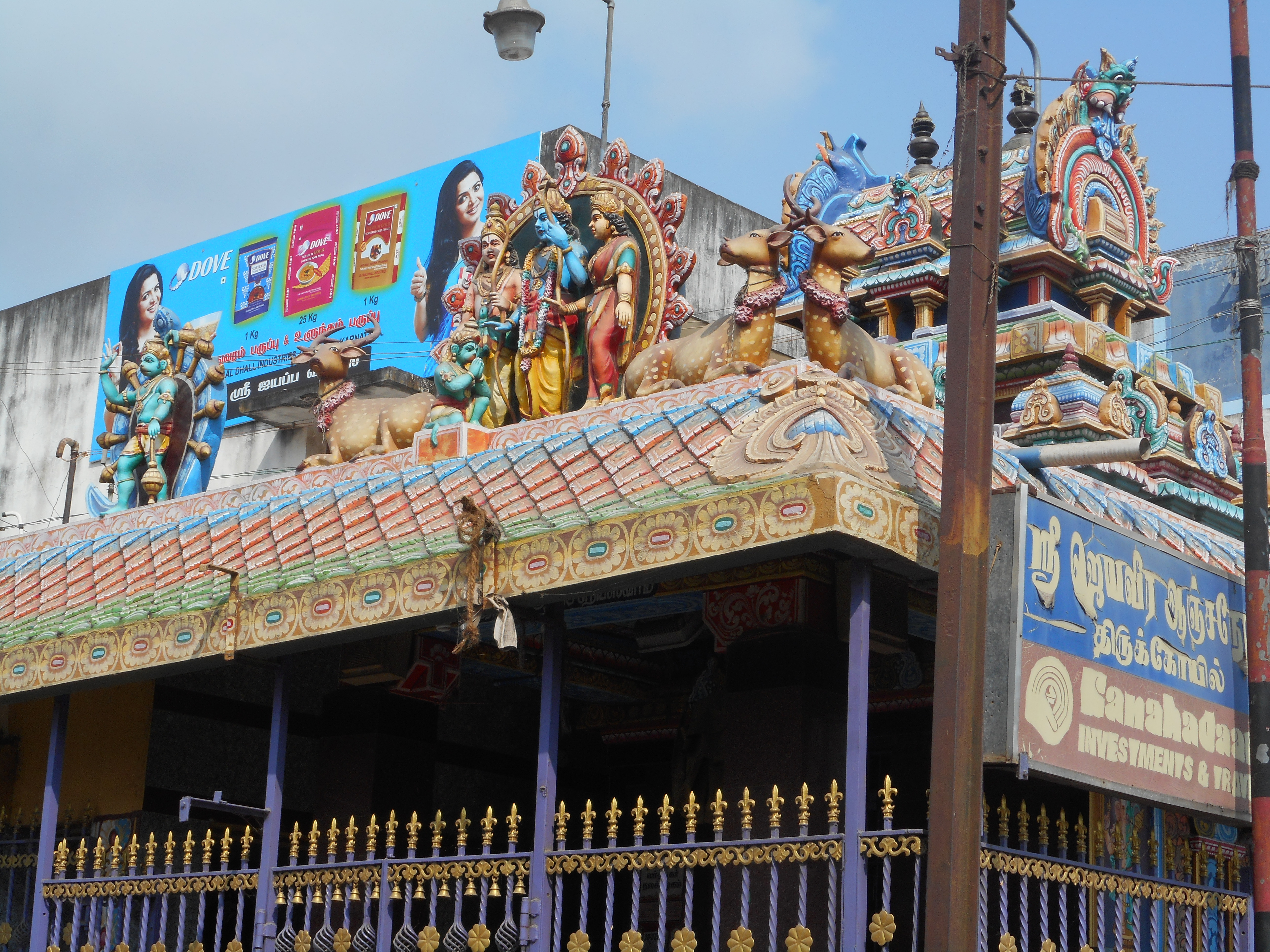 கும்பகோணம் ஜெயவீர ஆஞ்சநேயர் கோயில்